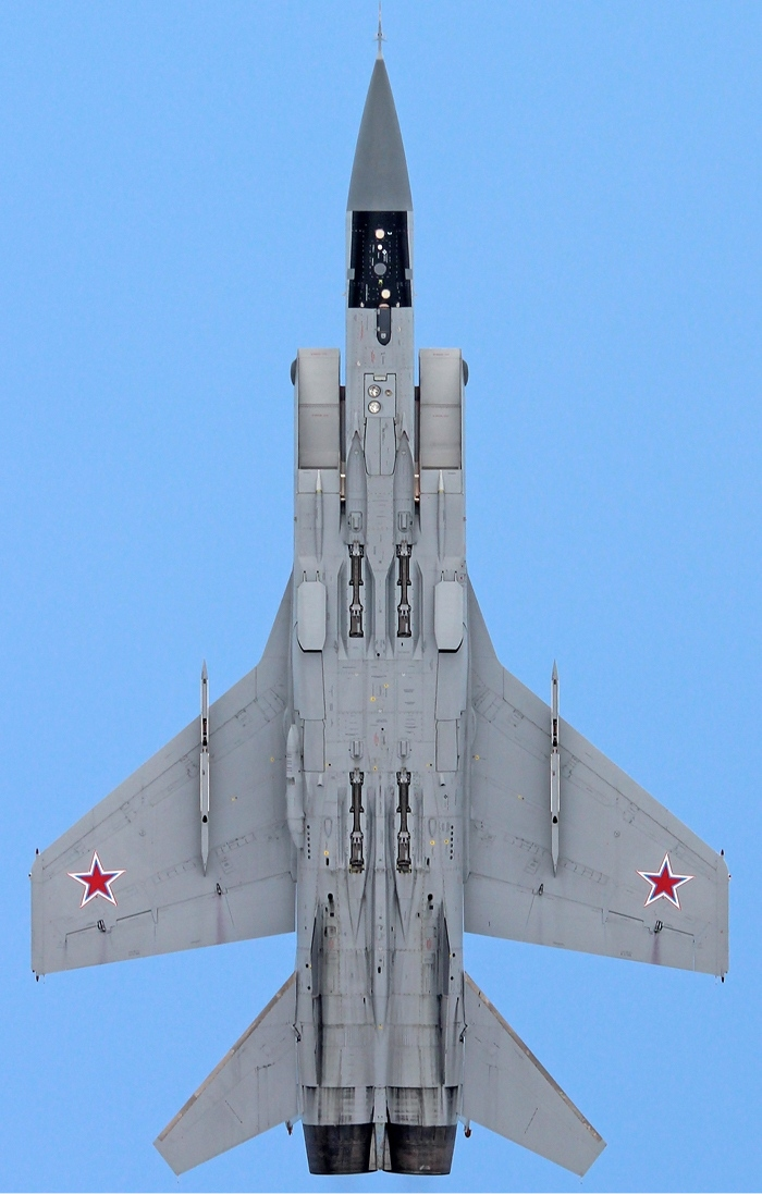 Russian Air Force MiG-31